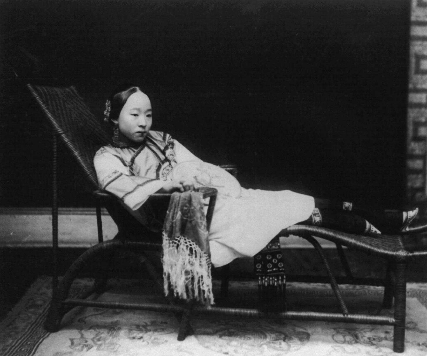 Woman with bound feet reclining on chaise lounge, China.